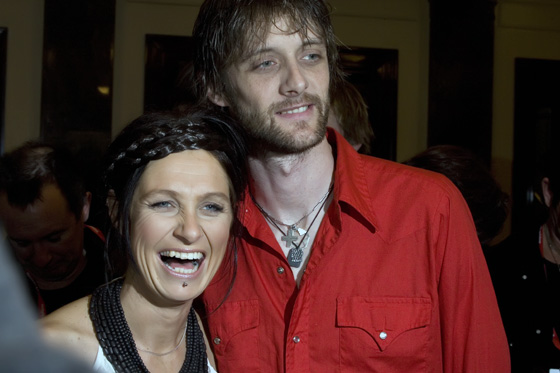 Kasey Chambers and Shane Nicholson ARIA Hall of Fame Melbourne, July 1st 2008